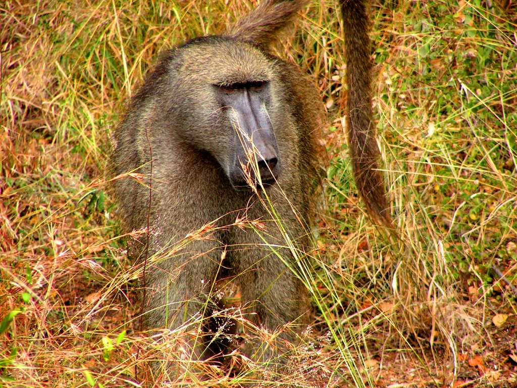 Male Chacma Baboon (Papio ursinus griseipes), Kruger Park, South Africa